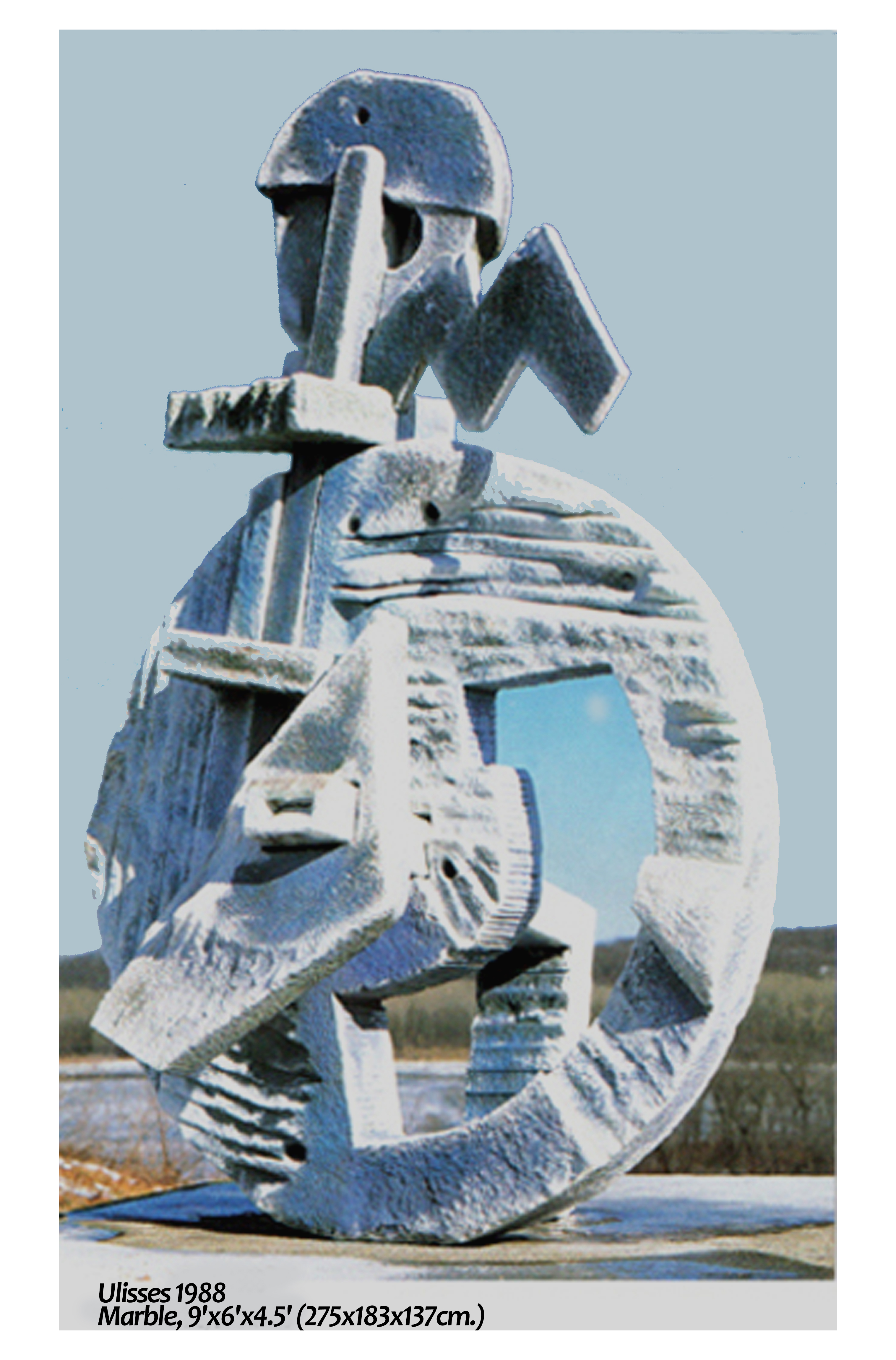 Sculpture Ulisses, marble, 1988 (dimensions 275x183x137 cm or 9'x6'x4,5'), by Milo Lazarevic, an American artist of Yugoslav descent.